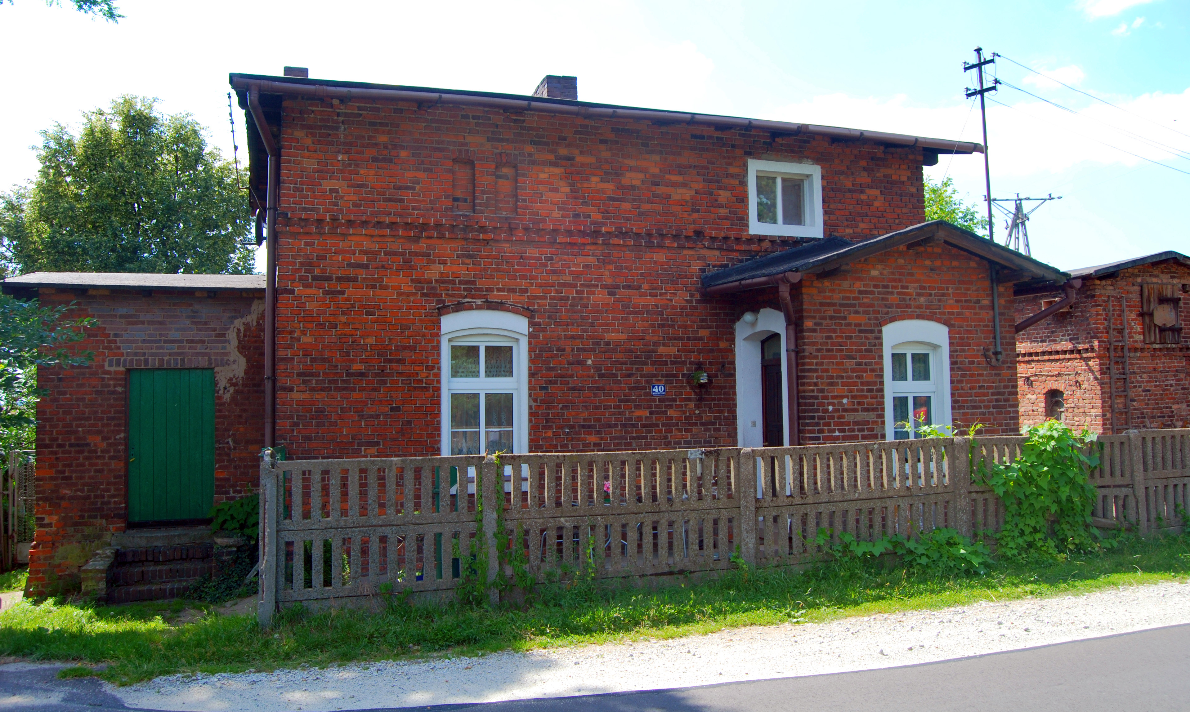 Dróżniczówka_w_Wierzbiczanach